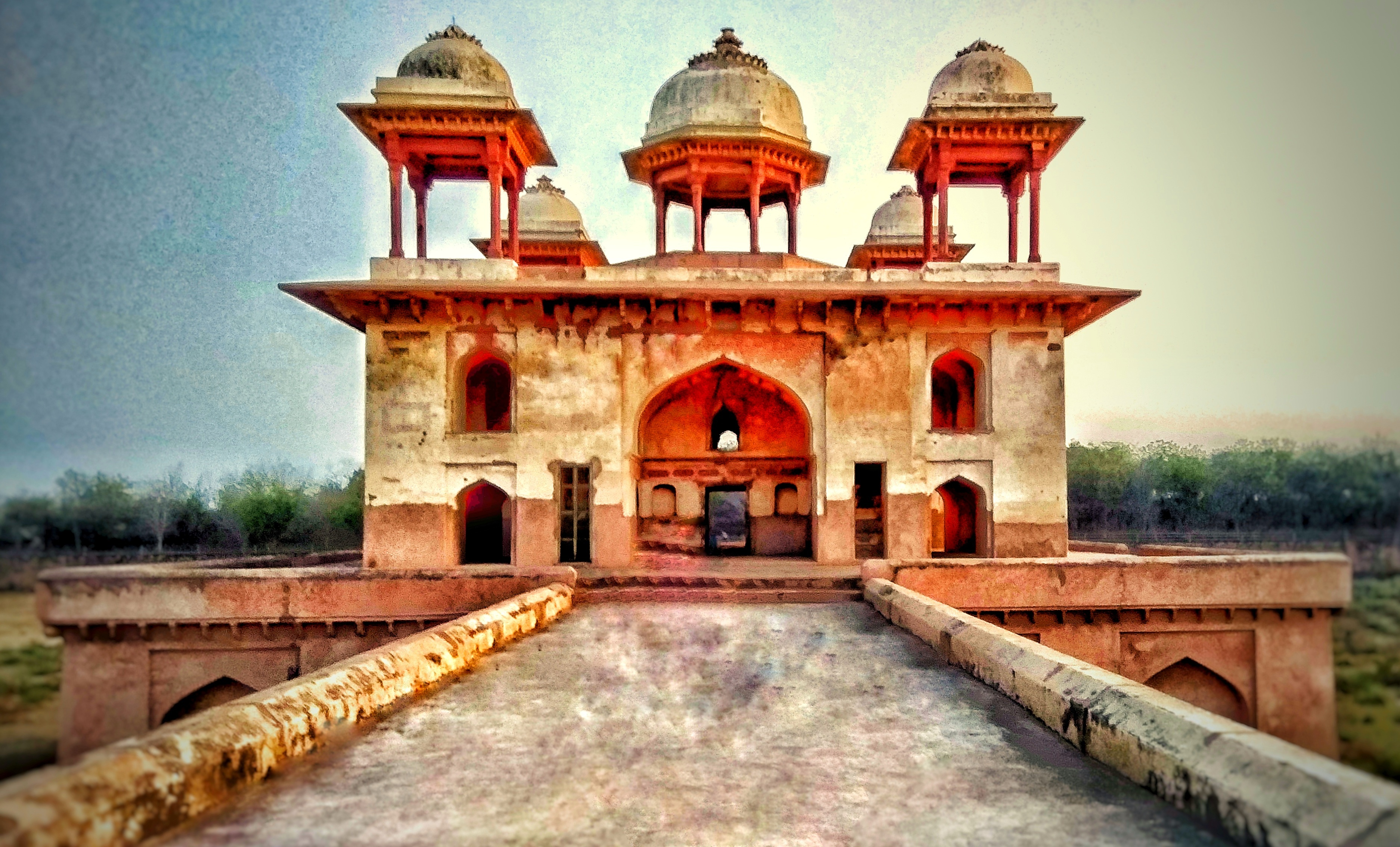 Jal Mahal happens to be the remnant of pleasure, is a palace situated in the middle of a tank known by the name of Khan Sarovar. According to a Persian inscription over the main entrance, it was built by Nawab Shah Quil Khan, who was the Governor of Narnaul for 52 long years. The entrance to the palace is in the north through a gatehouse, with rooms for guards constructed over a bridge resting on sixteen arched-spans. The palace consists of a square central chamber with four small chambers on the four corners. Four staircases, two each on the northern and southern faces, give access to the upper storeys. The roof of the central chamber is crowned by an octagonal cupola surrounded by a hemispherical dome balanced on four smaller cupolas placed over the corner chambers . The Jal Mahal was constructed during the reign of Mughal emperor Akbar in 1590-91 AD. The construction of the tank was completed in 1592-93 AD.